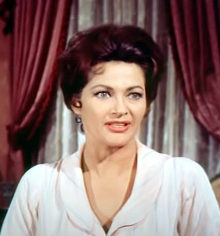 Yvonne De Carlo in McLintock! (cropped screenshot)